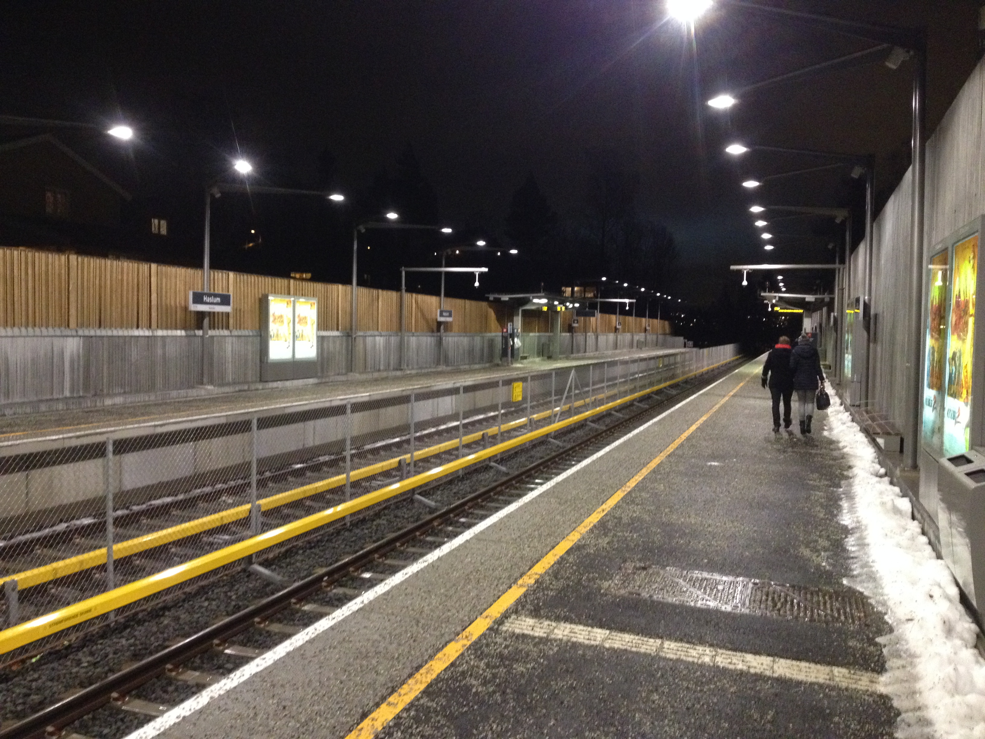 Haslum stasjon